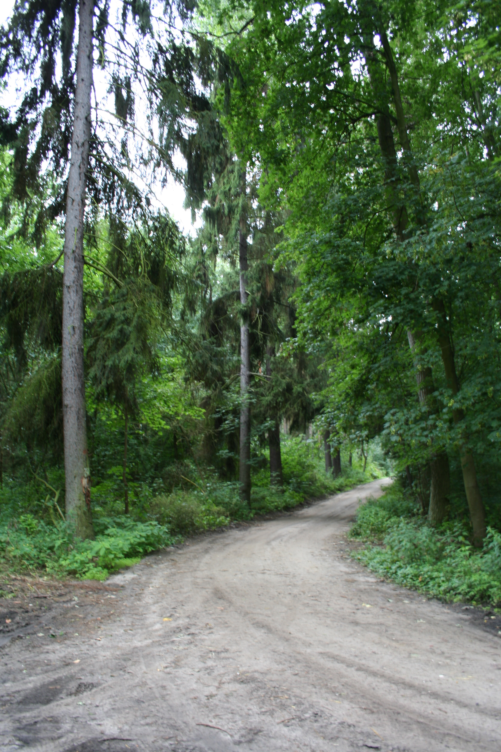 forest nearby Ławica village